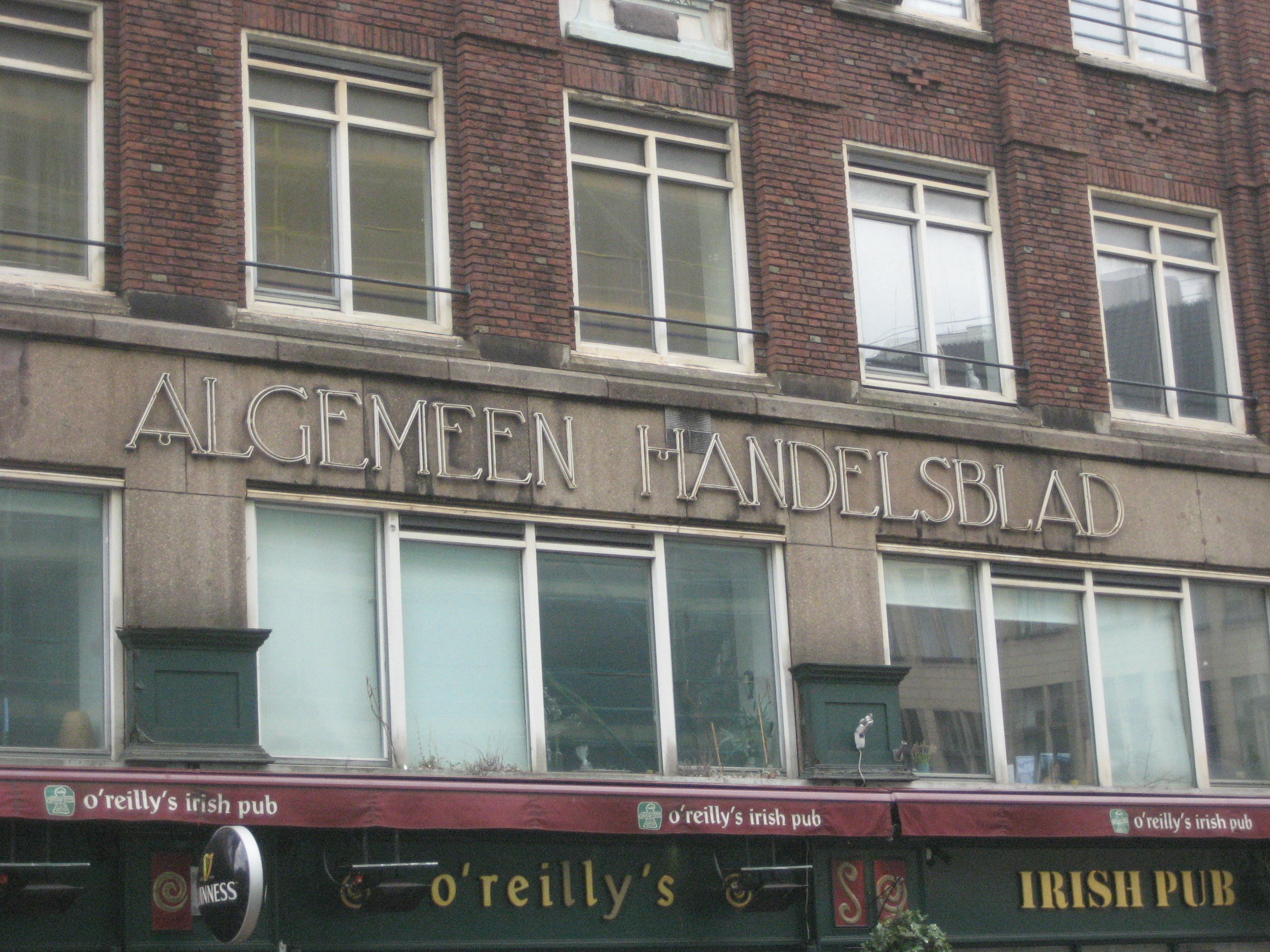 Building of the former Dutch newspaper Algemeen Handelsblad, Paleisstraat, Amsterdam (The Netherlands)